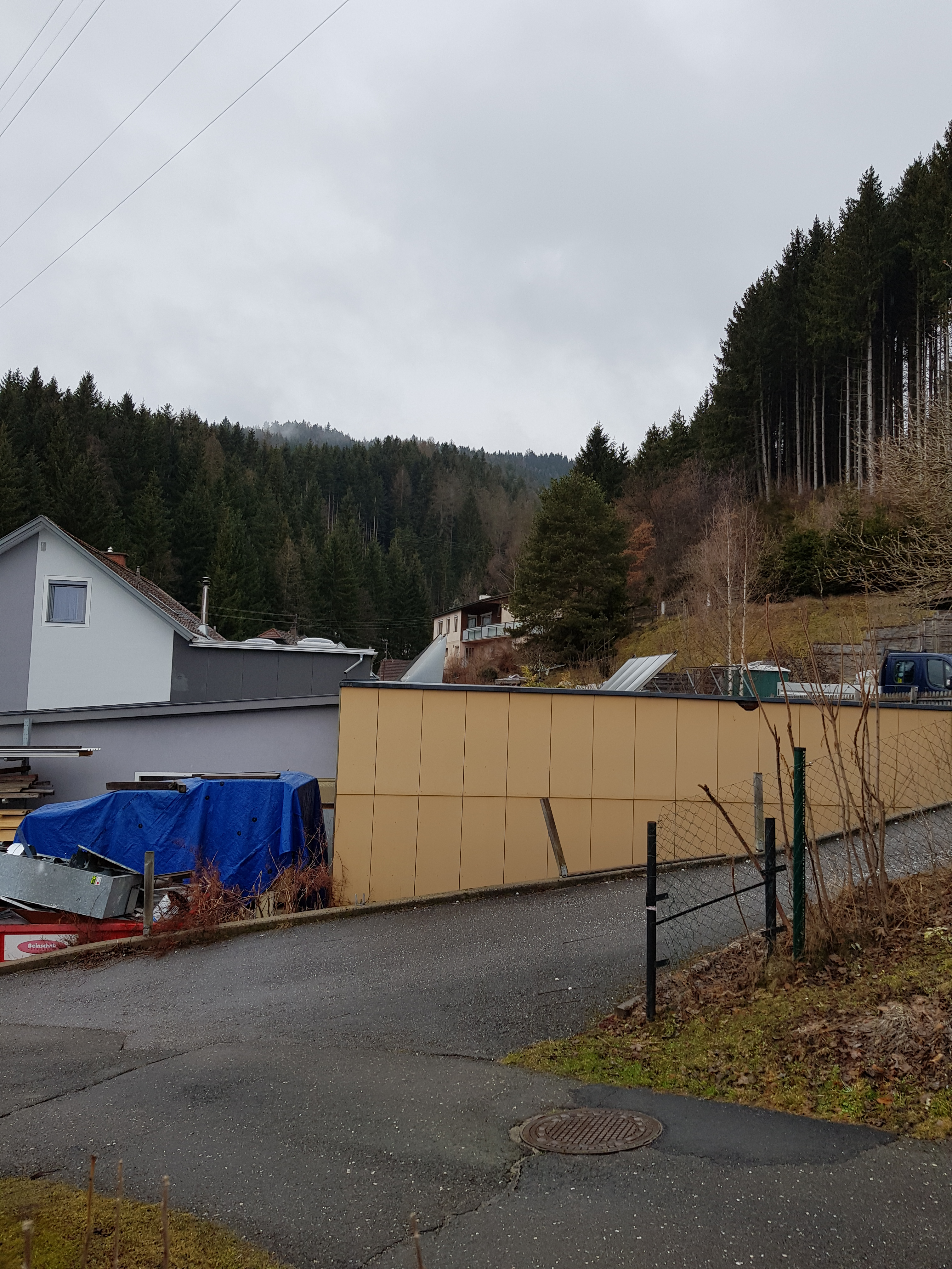 Blick von Süden auf den Dietersdorfergraben